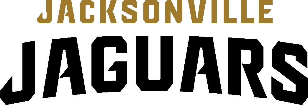 Jacksonville Jaguars wordmark logo, 2013-present